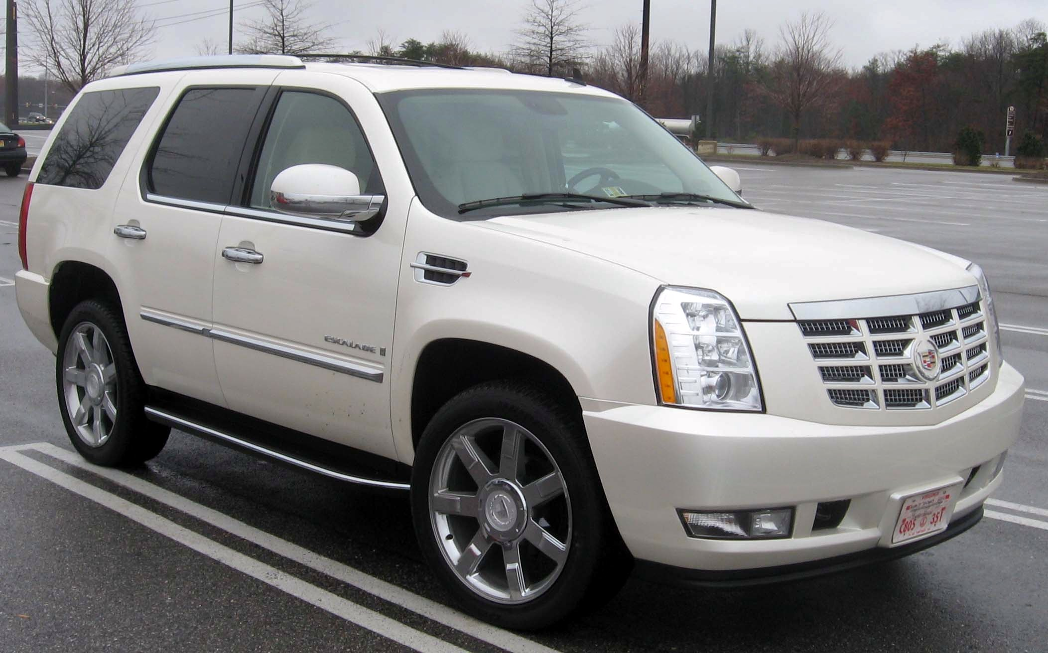 2007-2008 Cadillac Escalade photographed in Accokeek, Maryland, USA.